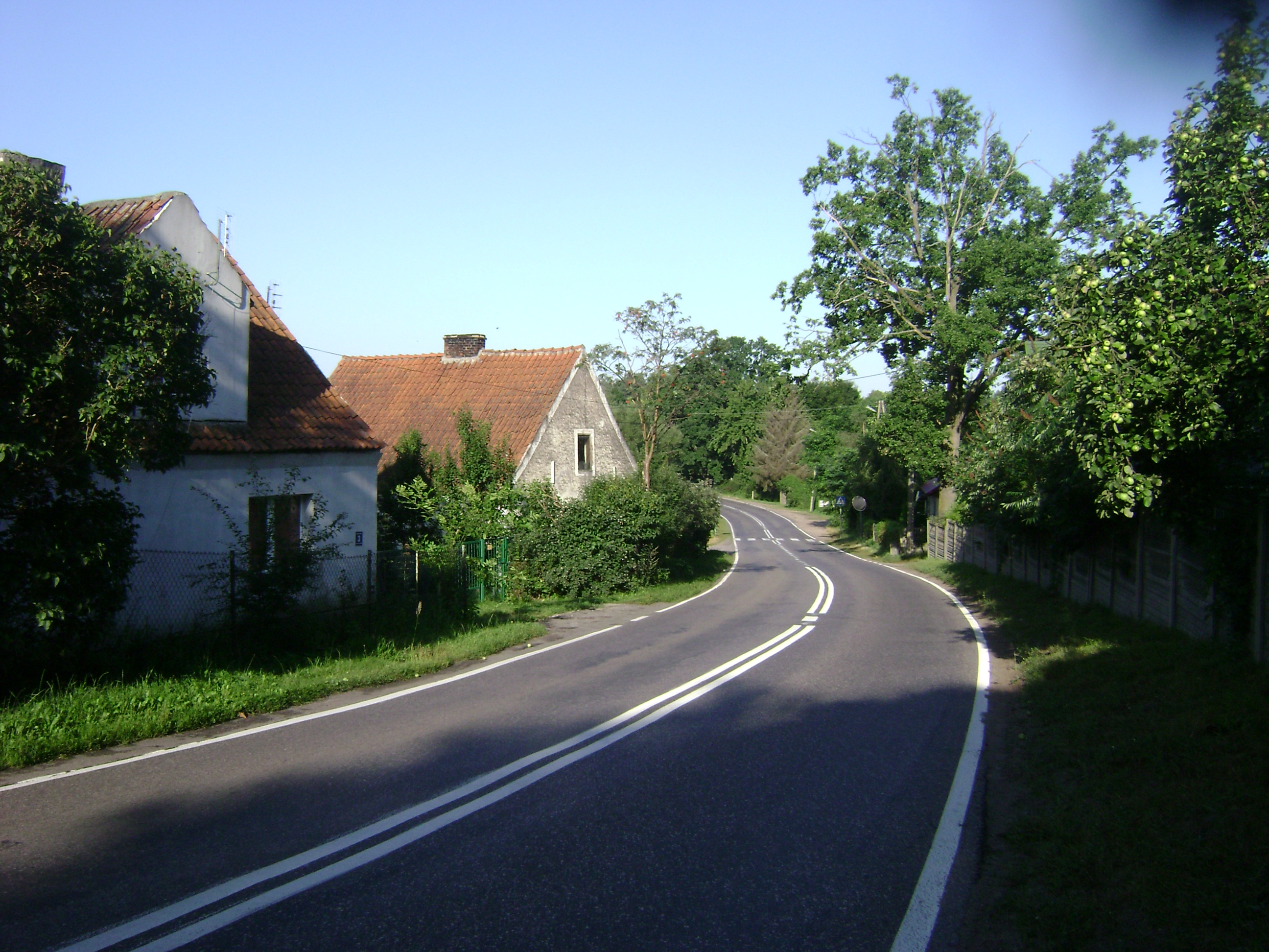 Warchały. National road 58.